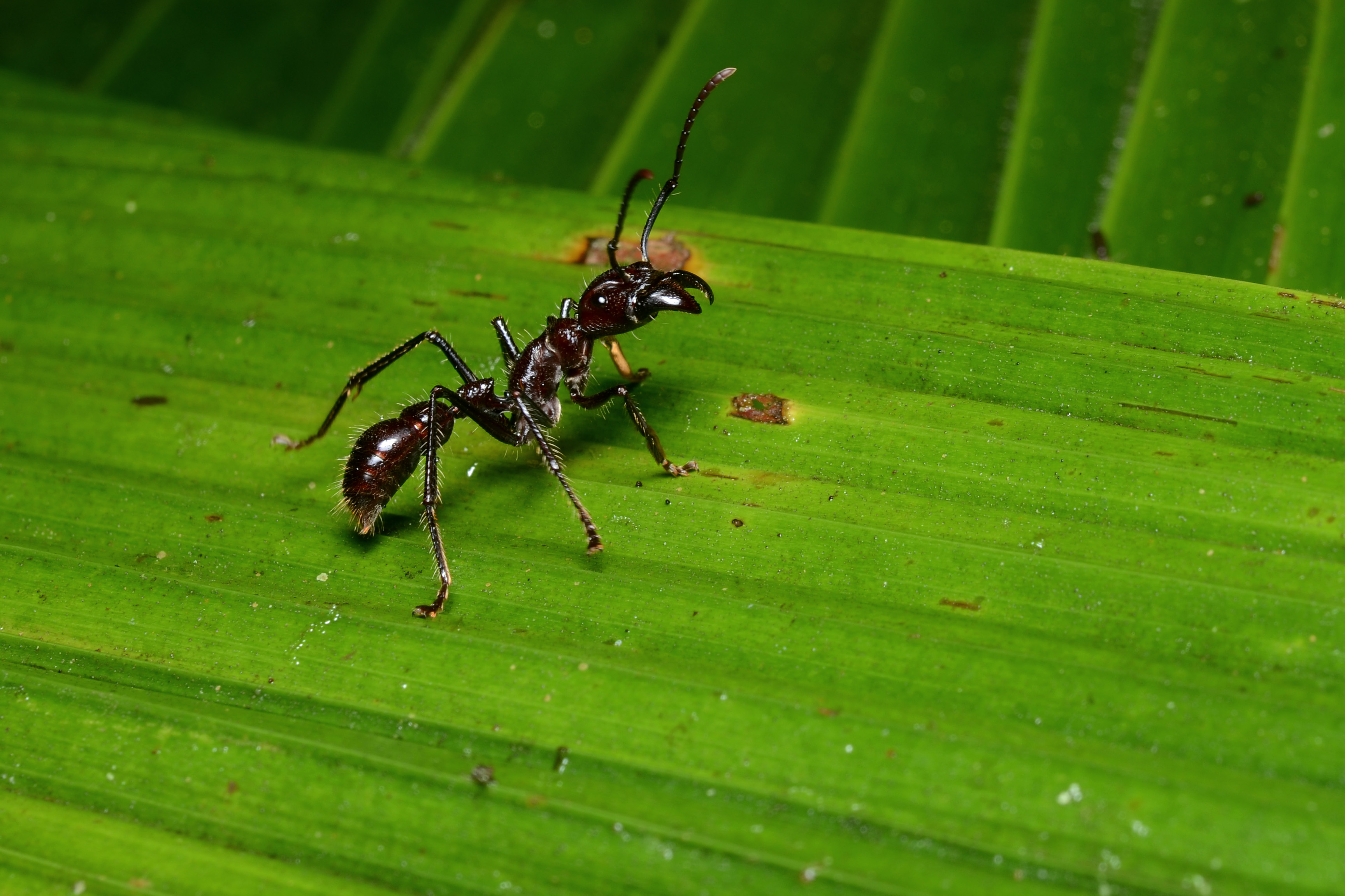 Bullet Ant (Paraponera clavata) - imaged taken in La Selva Biological Station